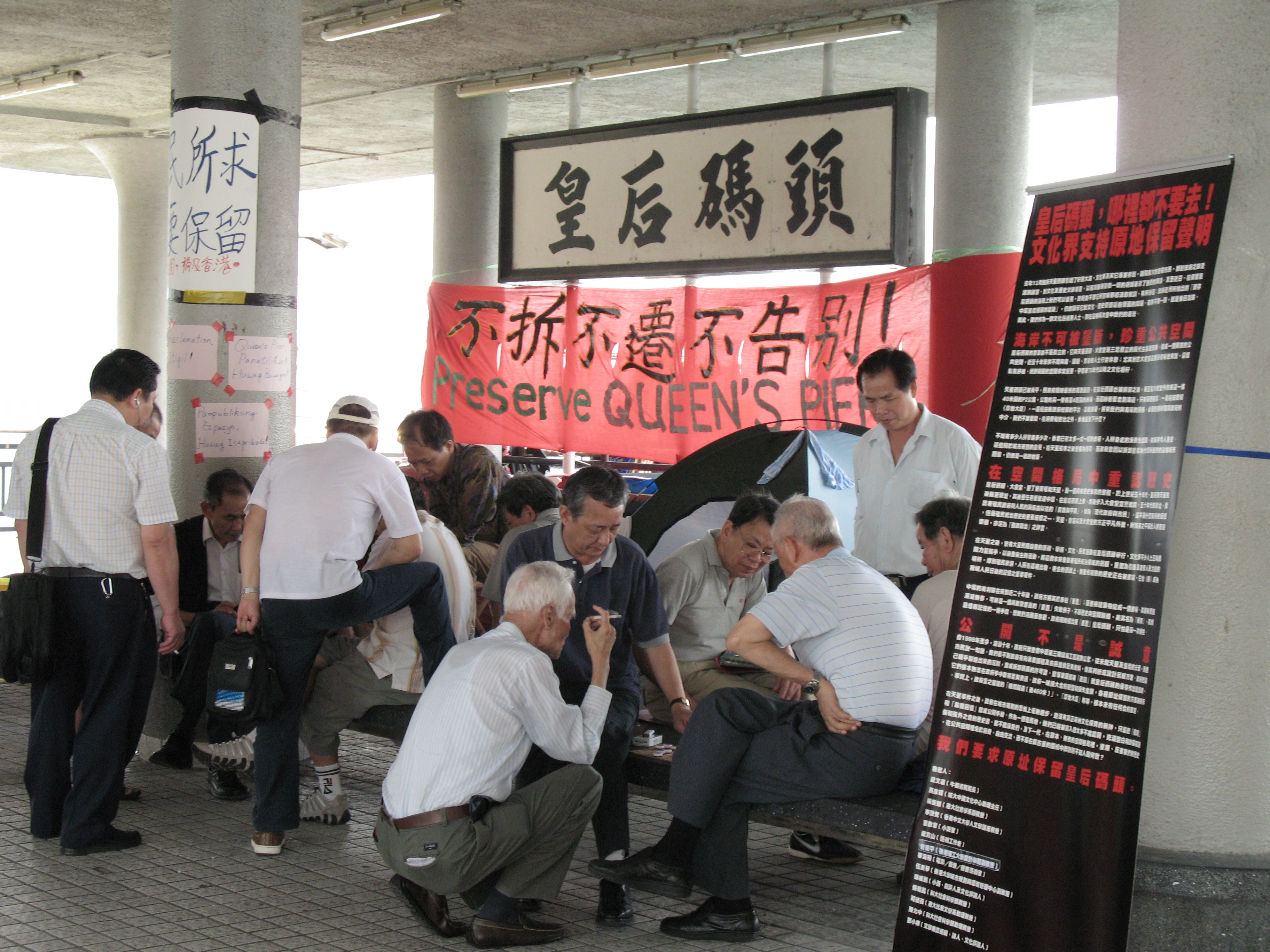 Preserve Queen's Pier